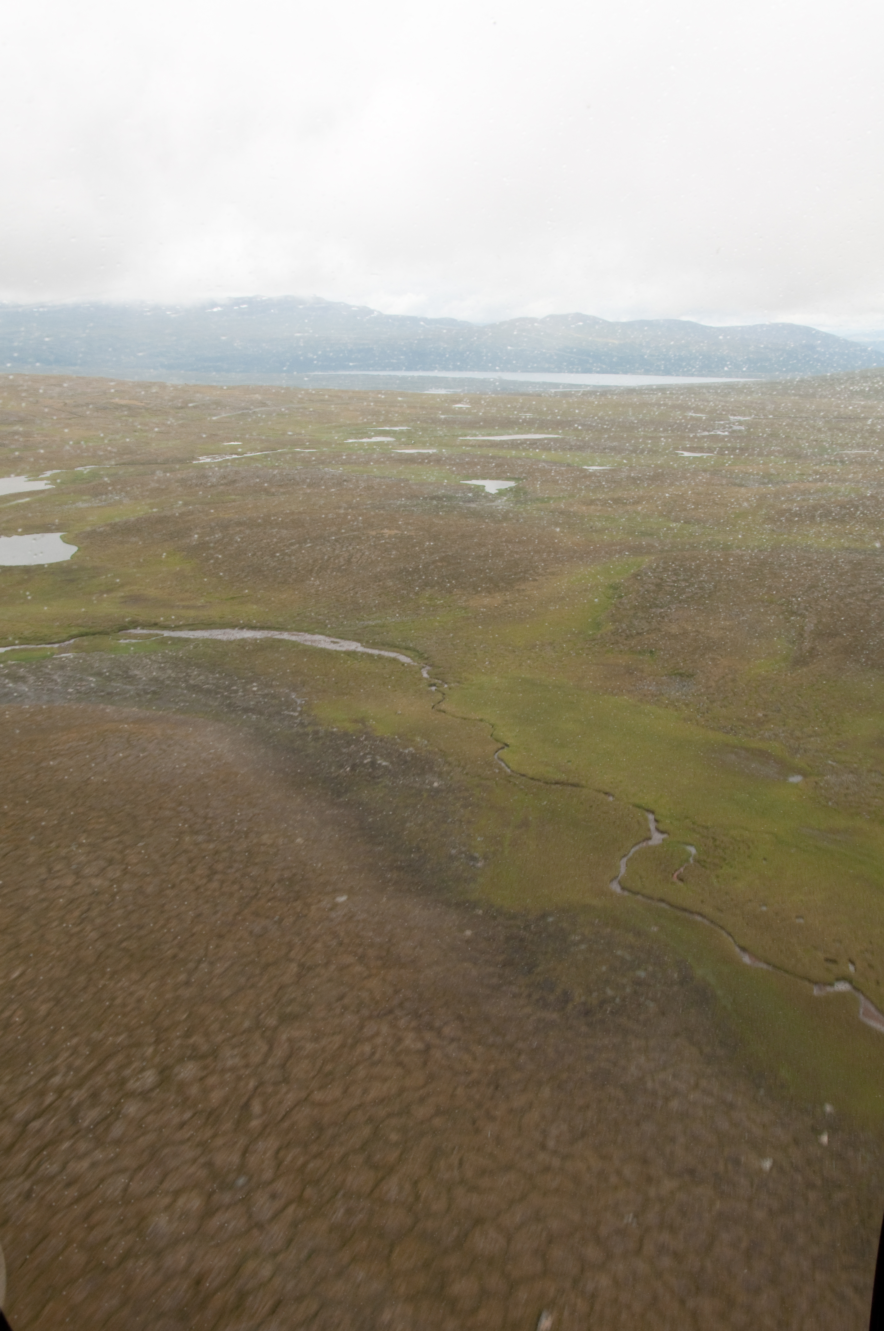 Polygons (Patterned ground) seen from helicopter during a rainy day. Padjelanta national park, Sweden.